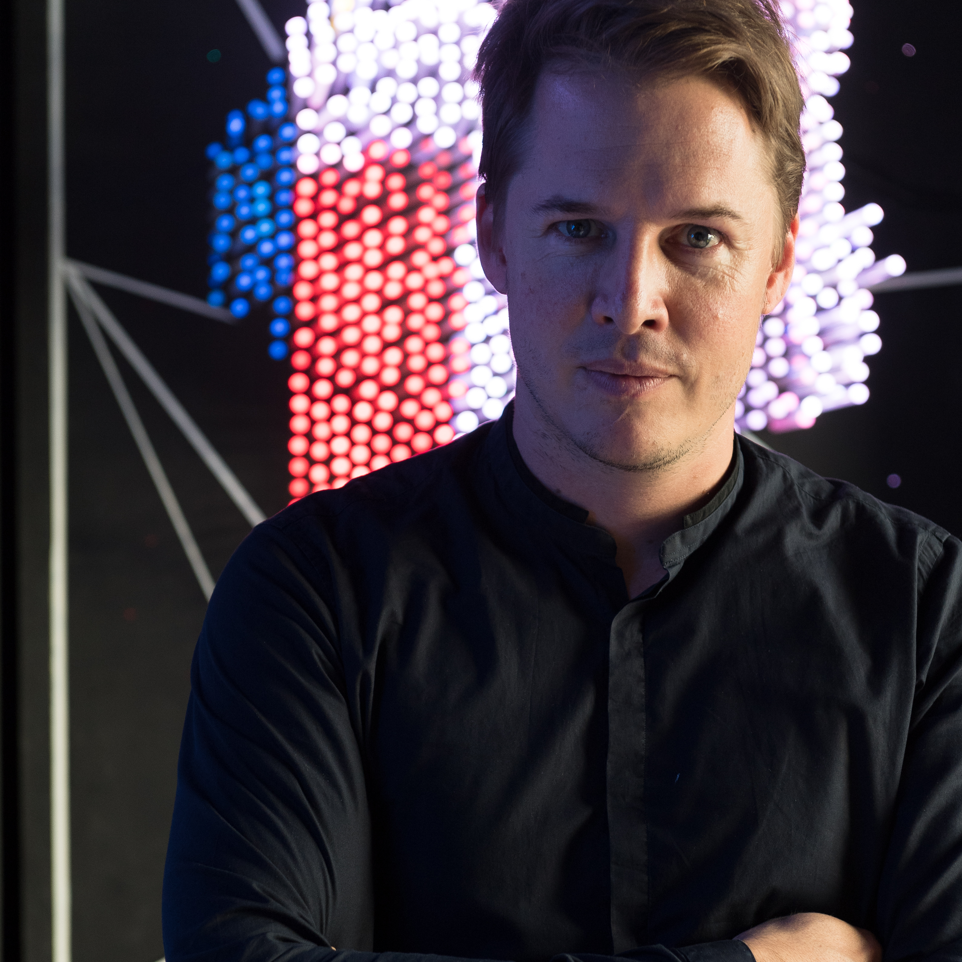 Portrait of Stephan Sigrist